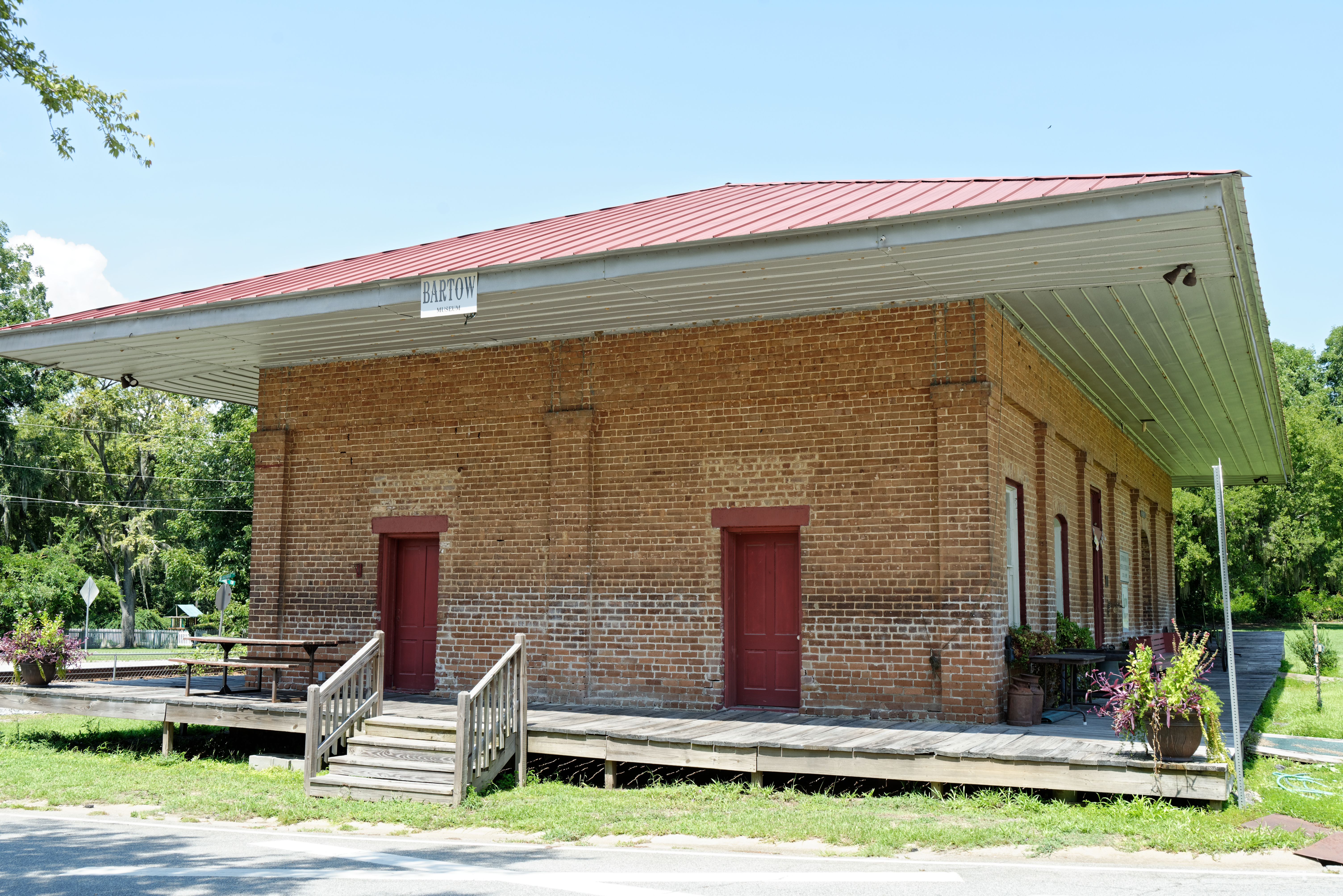 Bartow Historic District, Bartow, Georgia, U.S.